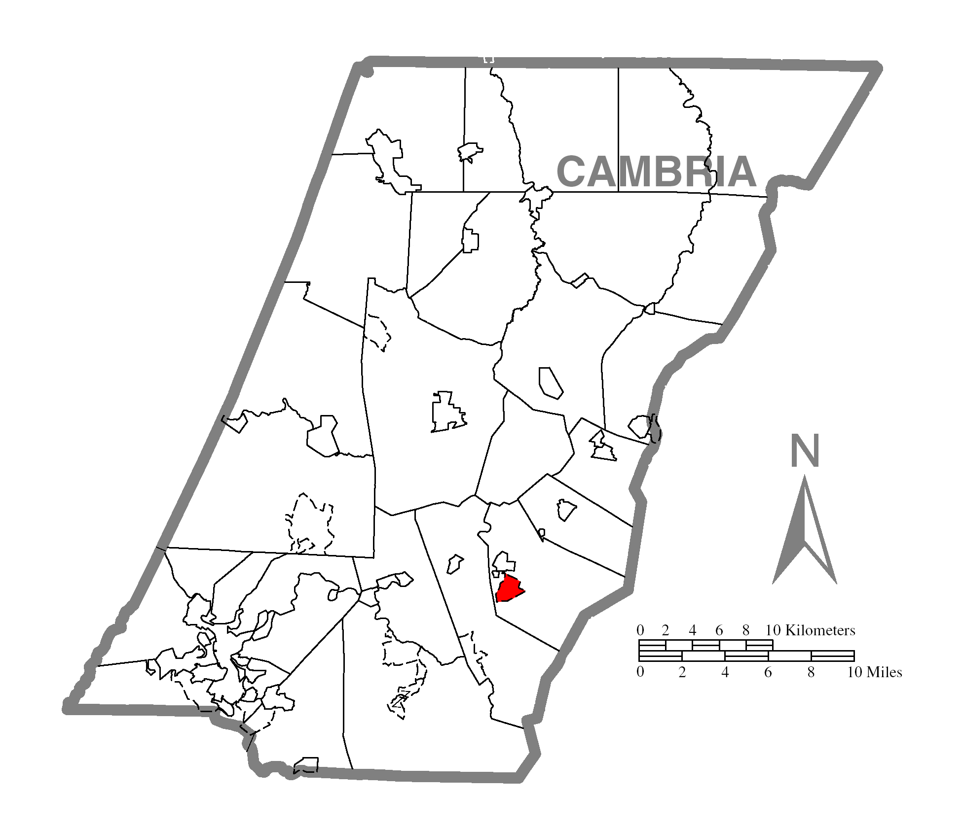 A map of Cambria County showing Spring Hill, Pennsylvania (alternate) highlighted on the map.